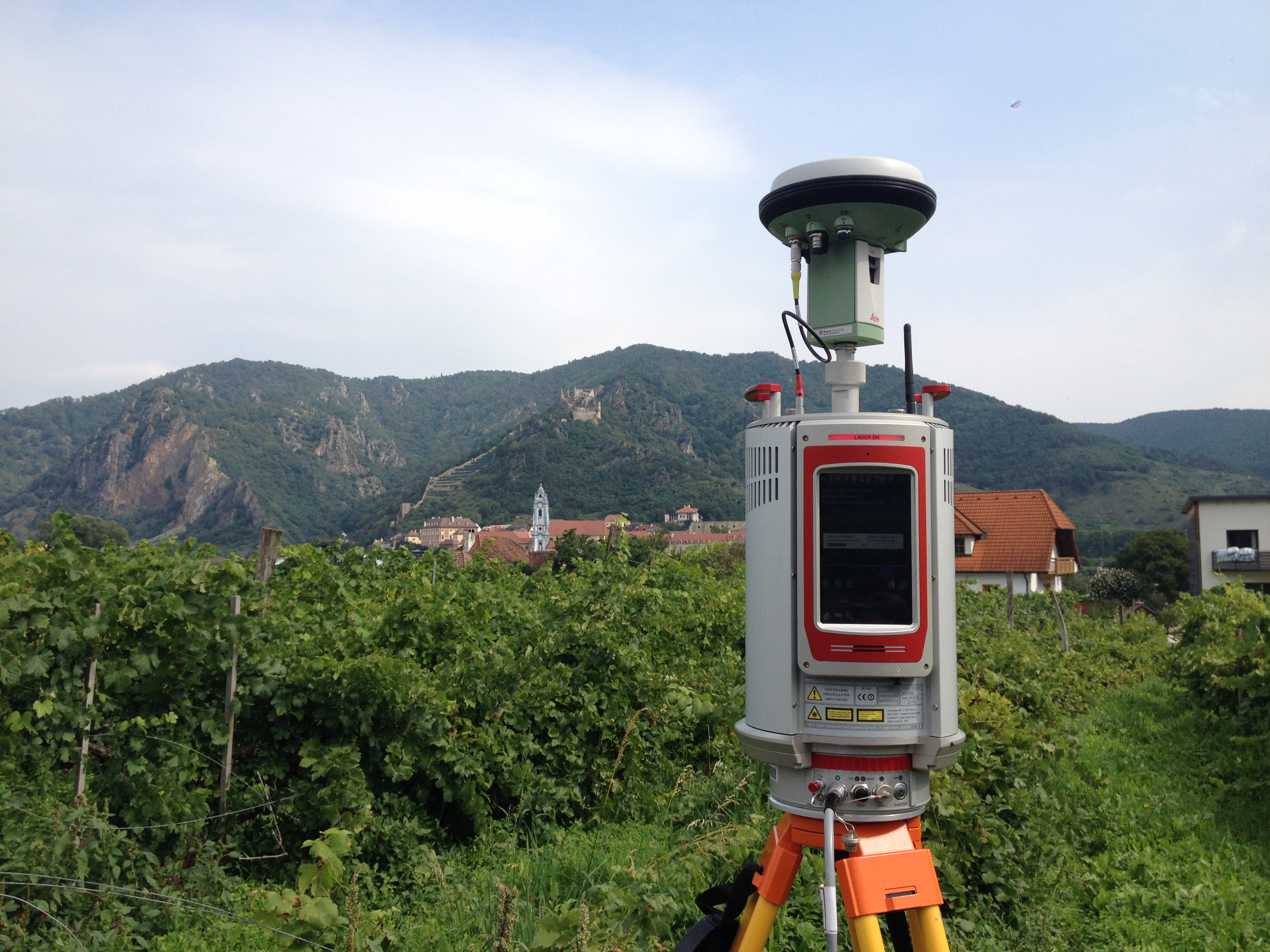 Terrestrial Laserscanner with a mounted GNSS receiver for georeferencing